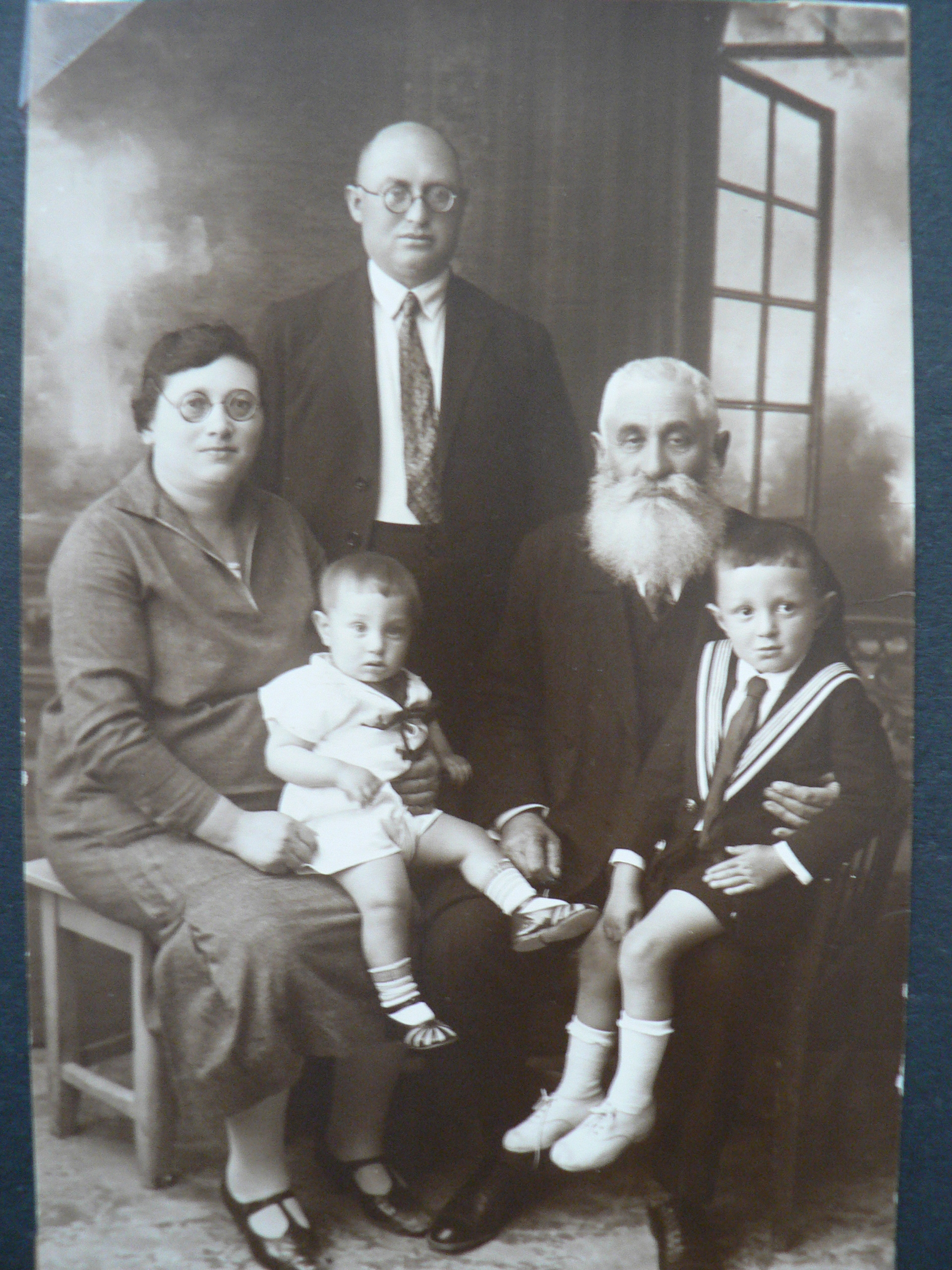 People of Israel — 1930s.